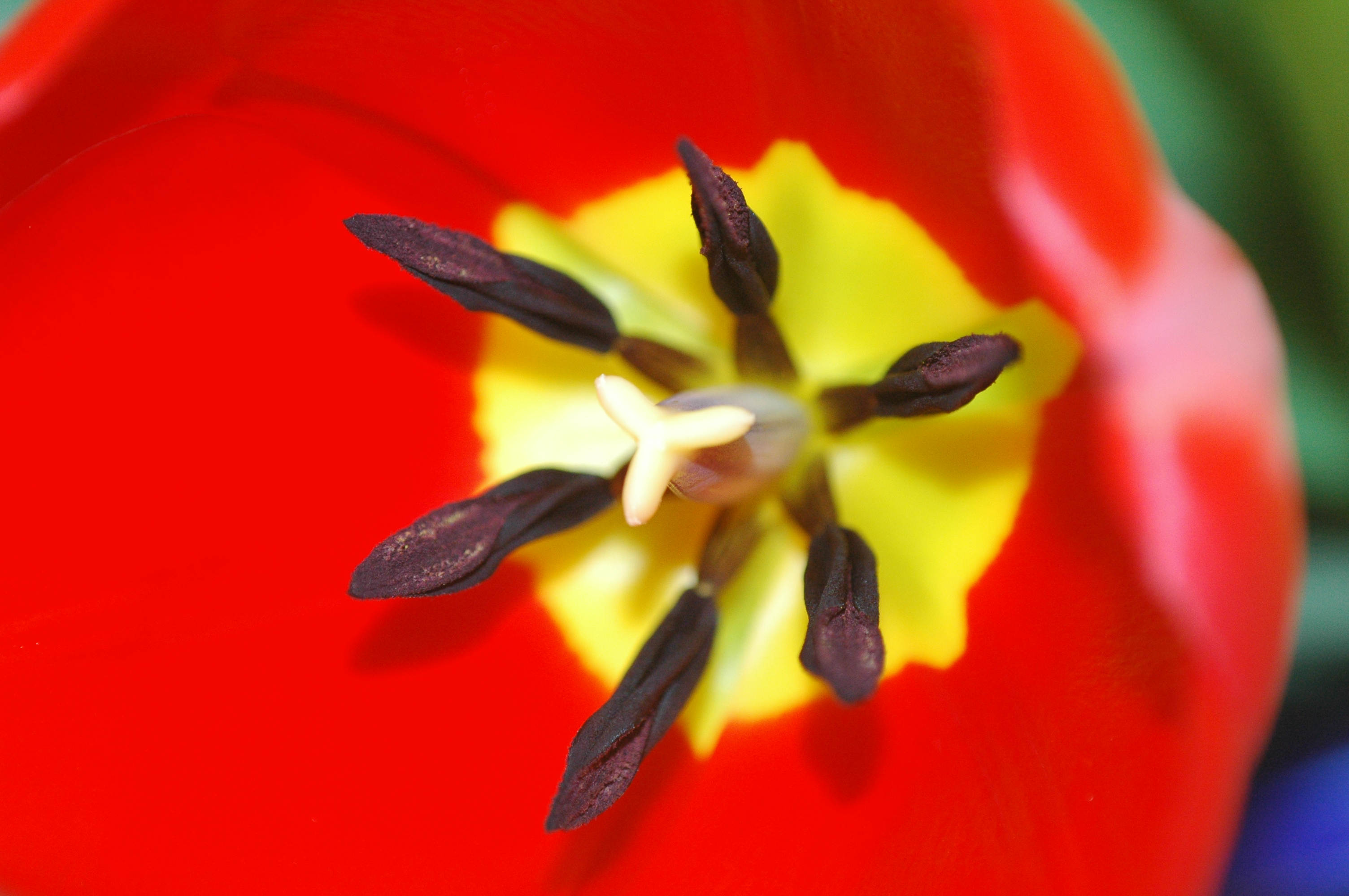 Tulip pistil